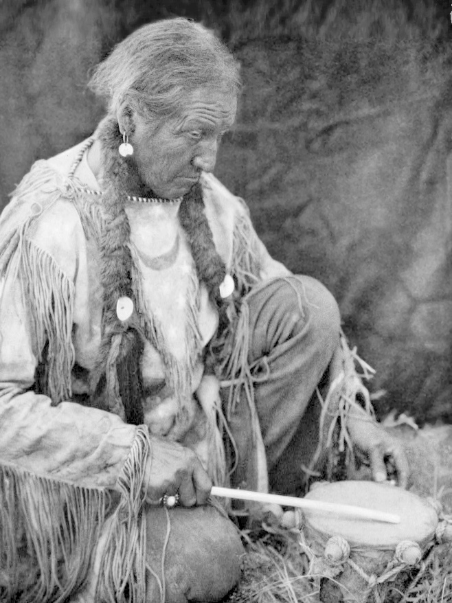 Peyote drummer; photogravure : brown ink ; 45 x 33 cm. Description by Edward S. Curtis: The Peyote rite as practised by the Indians of Oklahoma is described in Volume XIX. No Indian custom has been the subject of greater controversy or has led to the adoption of more laws and regulations with a view of abolishing it, largely because its effects have been misunderstood by white people.